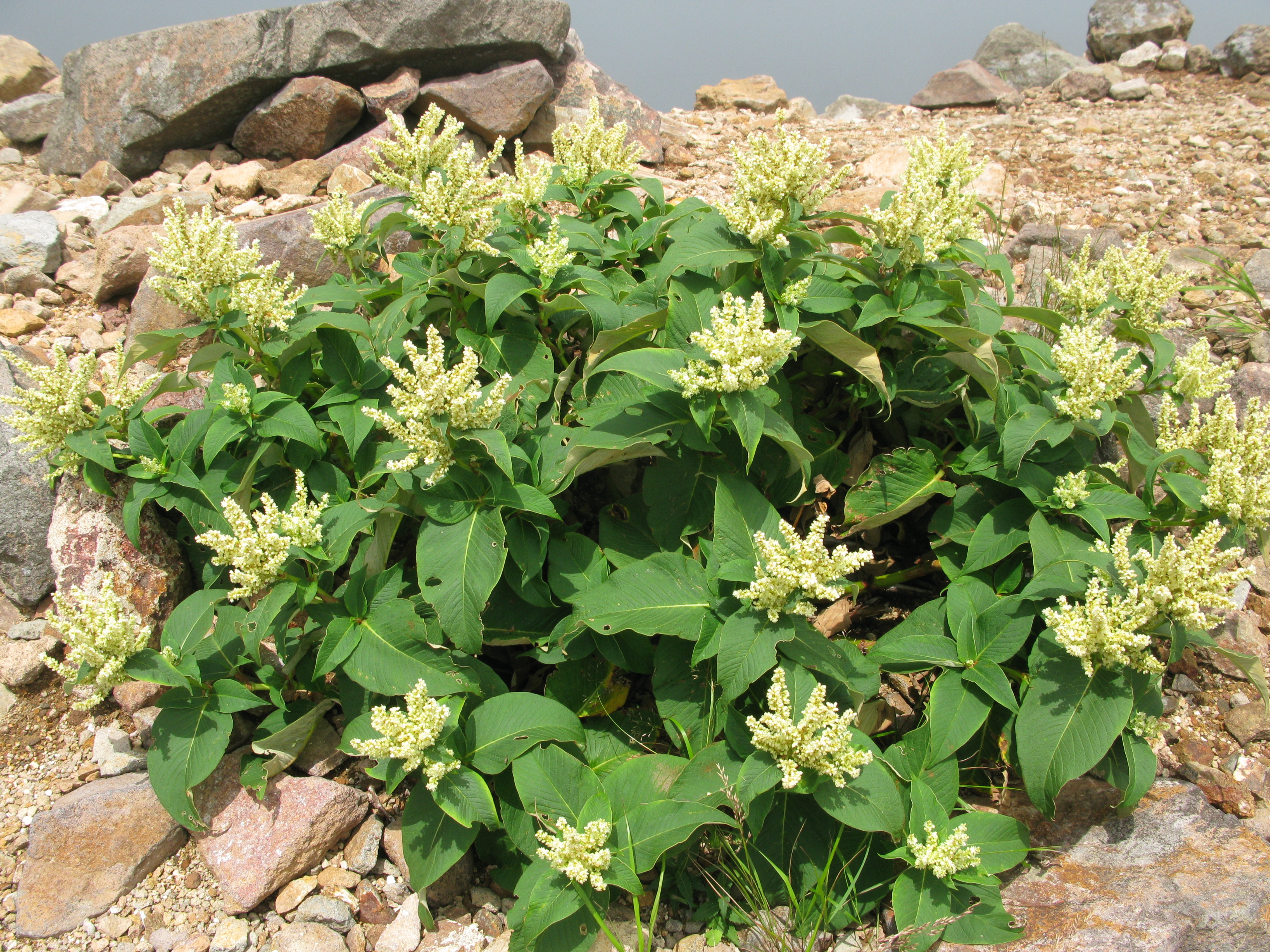 Aconogonon weyrichii, Mount Nasu, Tochigi pref., Japan